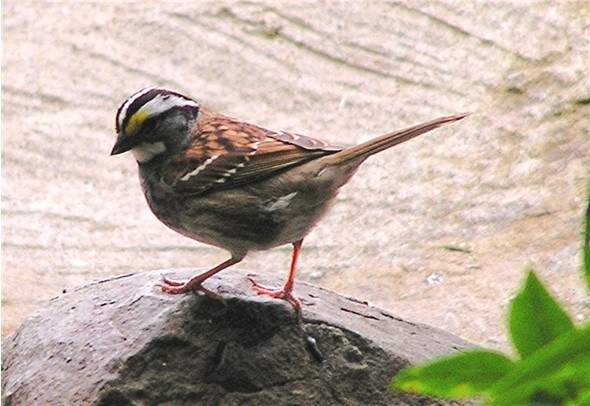 White-throated Sparrow